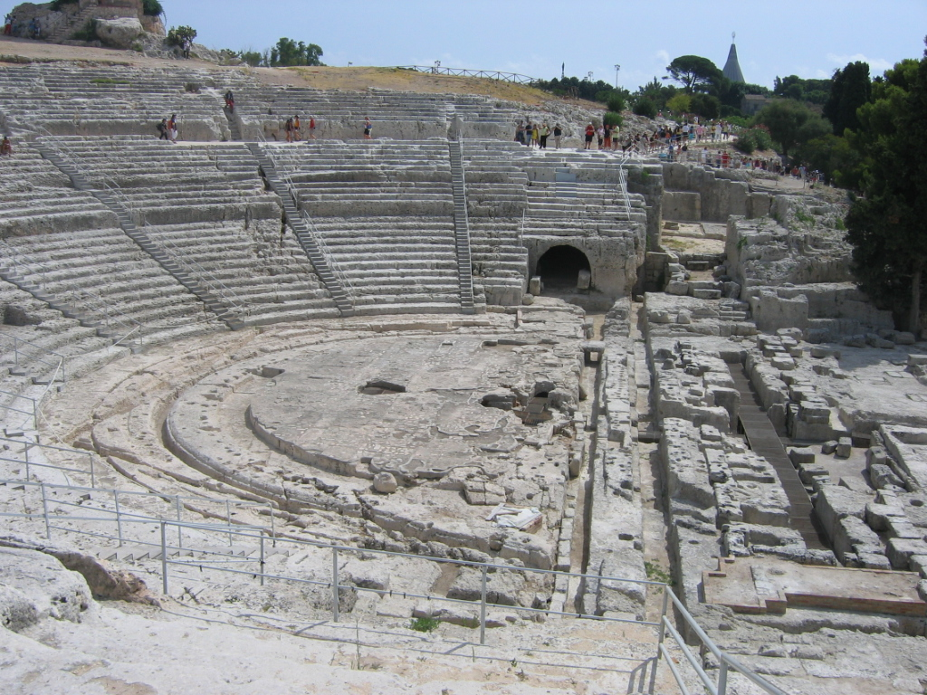 The Greek theatre in Syracuse, Sicily, Italy.